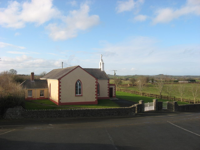 St. Mary's Church, Stonetown, Co. Louth Small T-plan church built by Rev. P. Banan in 1837.